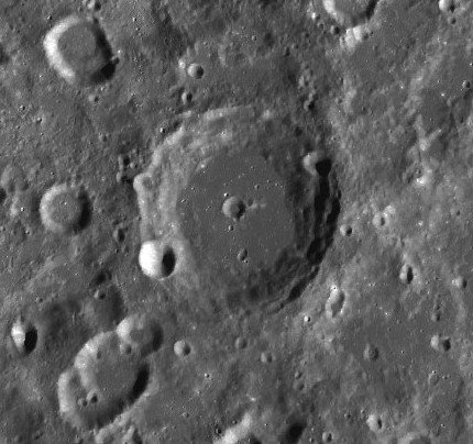 Winlock lunar crater - LROC image